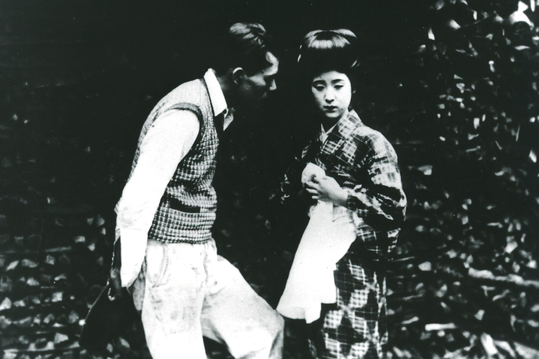 Denmei Suzuki and Kinuyo Tanaka in Kare to den'en (彼と田園) directed by Kiyohiko Ushihara - 1928